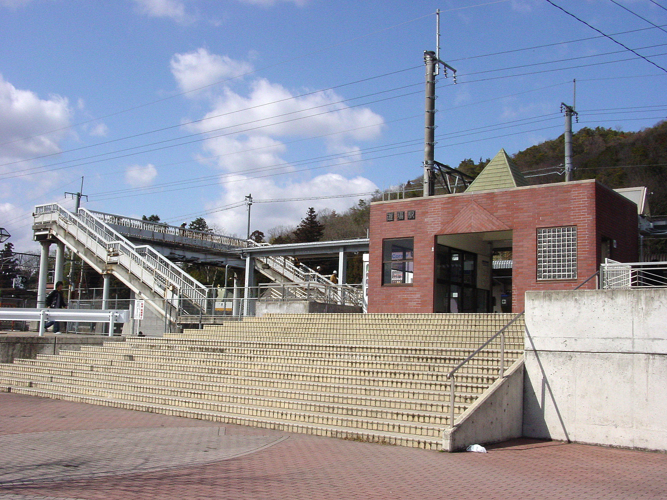 道場駅駅舎 The Station building of Dōjō Station